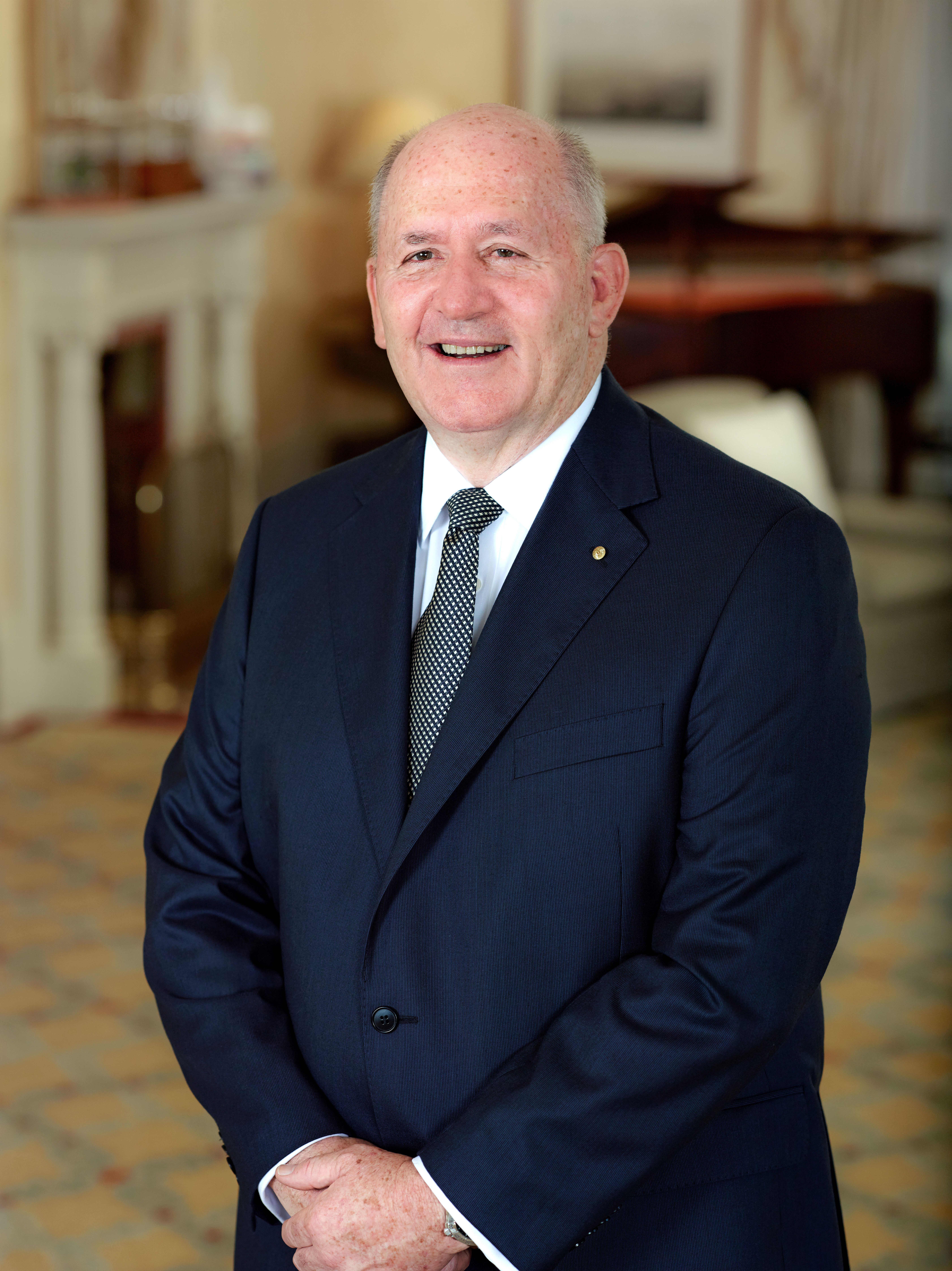 Peter Cosgrove